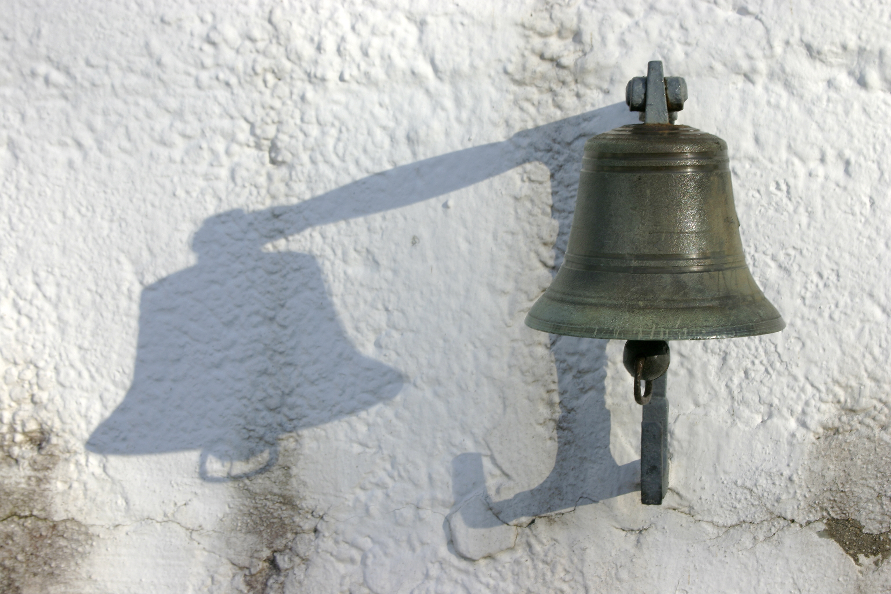 Bell and its shadow